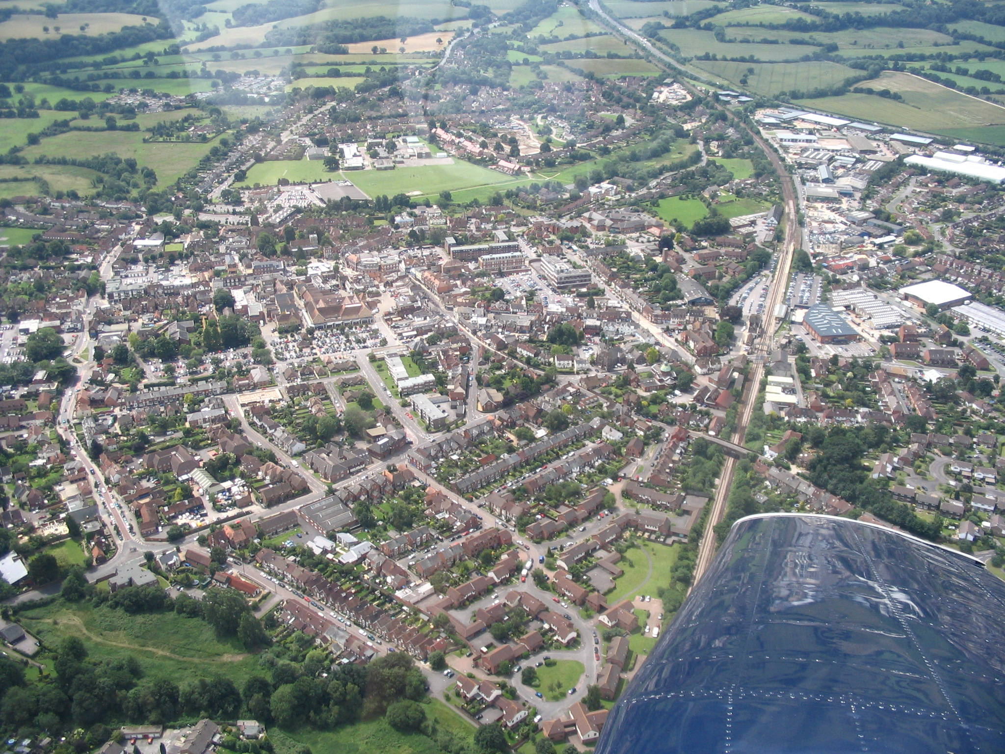 Aerial view of Petersfield, Hampshire, from the northeast, showing railway (right), College Street (bottom left) and A3 bypass (top right)